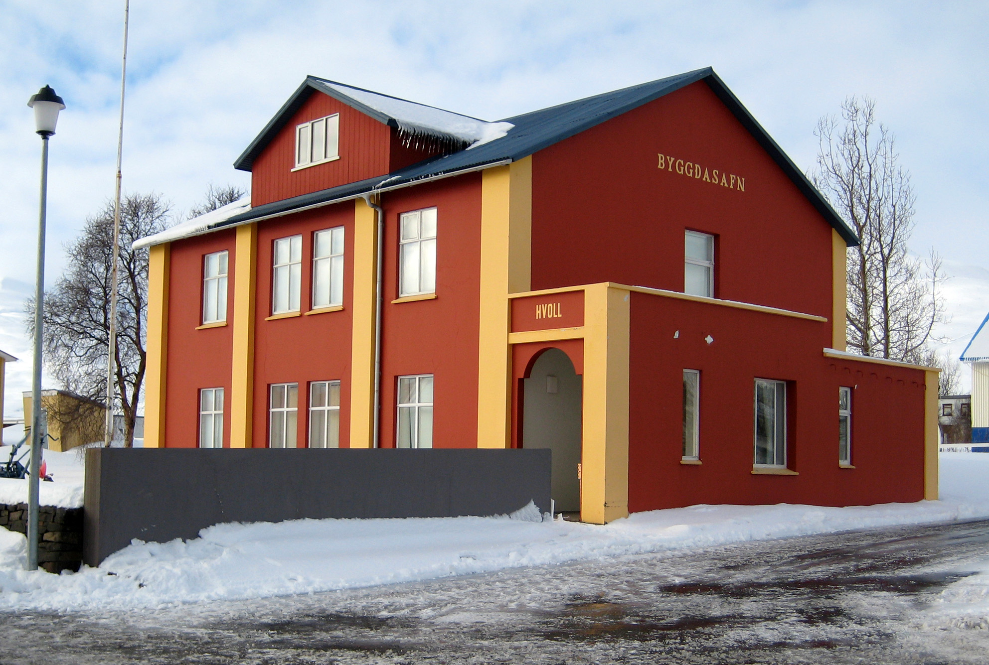 Hvoll Museum, Dalvík, North Iceland